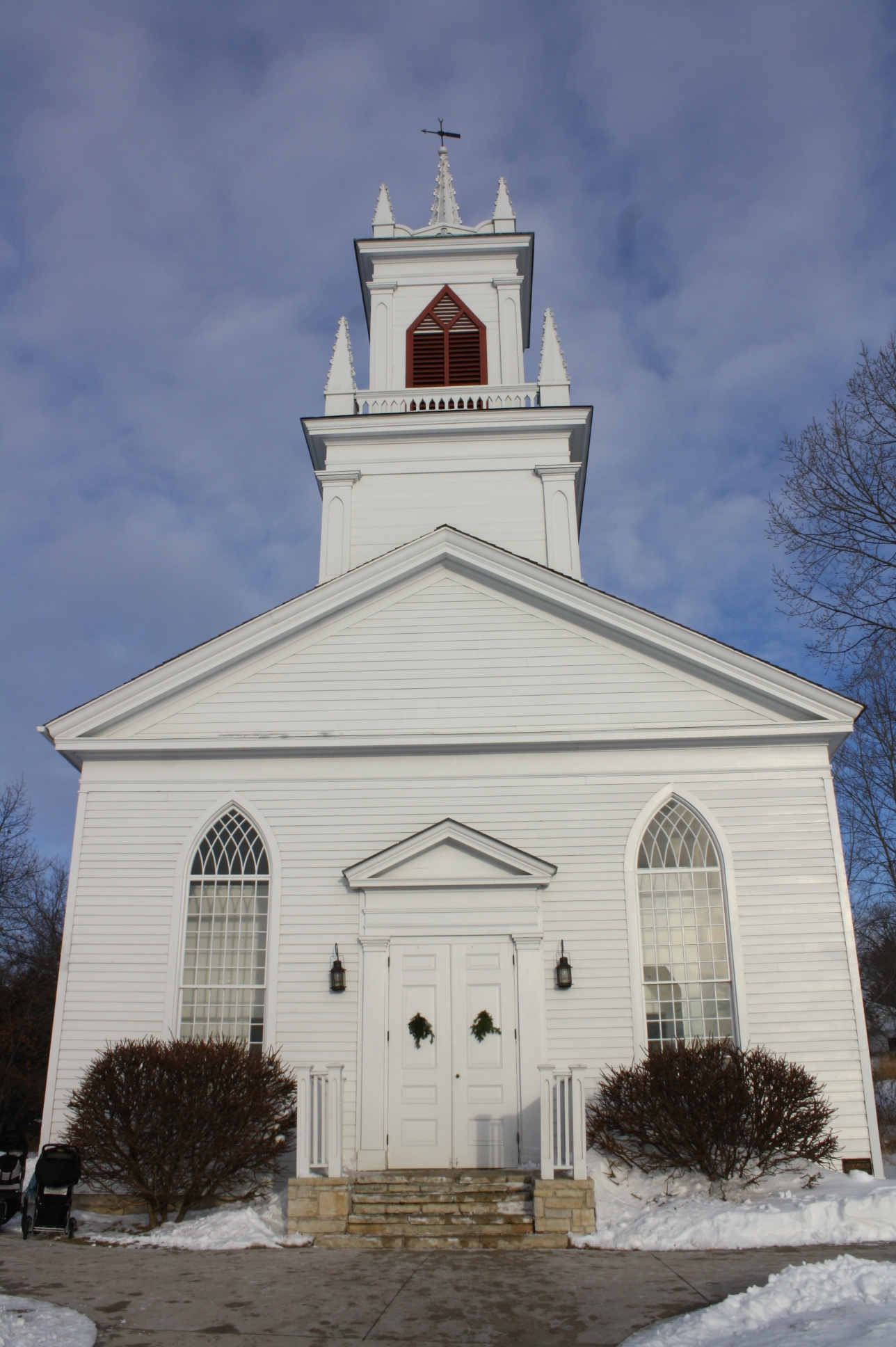 The East Moravian Church at Heritage Hill State Historic Park, listed on the National Register of Historic Places.